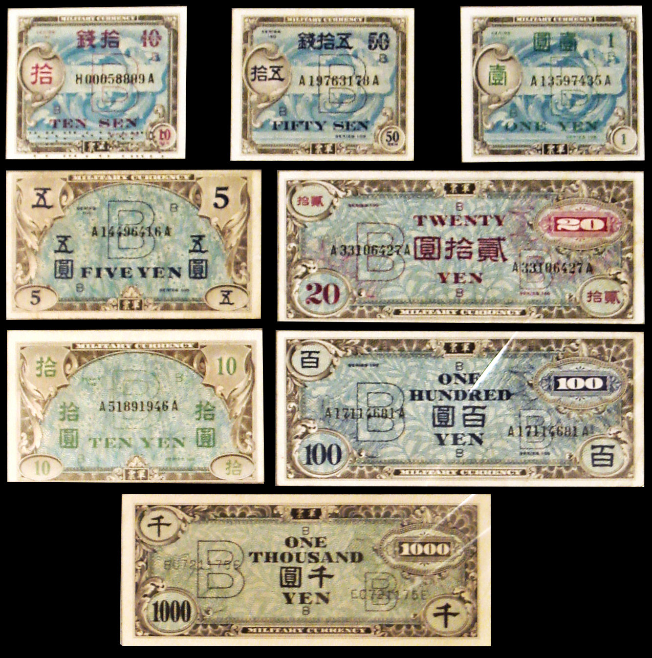 Various_types_of_B_Notes_1945_1958